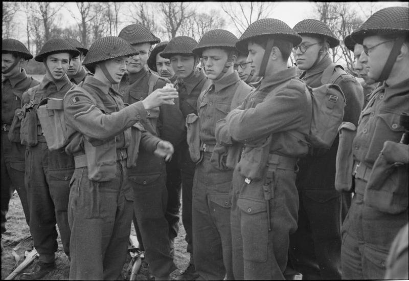 Belgian Commandos in Training, UK, 1945 A Lance Corporal demonstrates the correct way to handle a hand grenade to a group of Belgian soldiers during their Commando training, somewhere in Britain.